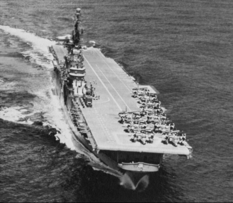 The U.S. Navy anti-submarine aircraft carrier USS Tarawa (CVS-40) in the South Atlantic during "Operation Argus" in August/September 1958. "Operation Argus" was a series of nuclear weapons tests and missile tests secretly conducted during August and September of 1958 over the South Atlantic Ocean by the United States's Defense Nuclear Agency, in conjunction with the Explorer 4 space mission. The naval task force was Task Force 88, its staff, which was in overall command, being aboard the USS Tarawa. The commanding officer of the Tarawa served as commader of Task Group 88.1. The USS Tarawa carried an U.S. Air Force MSQ-1A radar and communications vans for missile tracking and gathering scientific data, visible in front of the twin 12,7 cm gun turrets on the flight deck. The 19 Grumman S2F-2 Tracker aircraft of anti-submarine squadron VS-32 Norsemen flew search and security missions as well as scientific measurement, photographic, and observer missions during the missile and weapons tests.